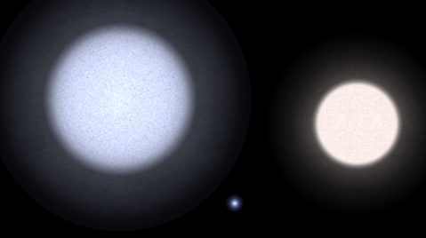 This graphic shows the relative dimensions of IK Pegasi A (left), IK Pegasi B (lower center) and the Sun.